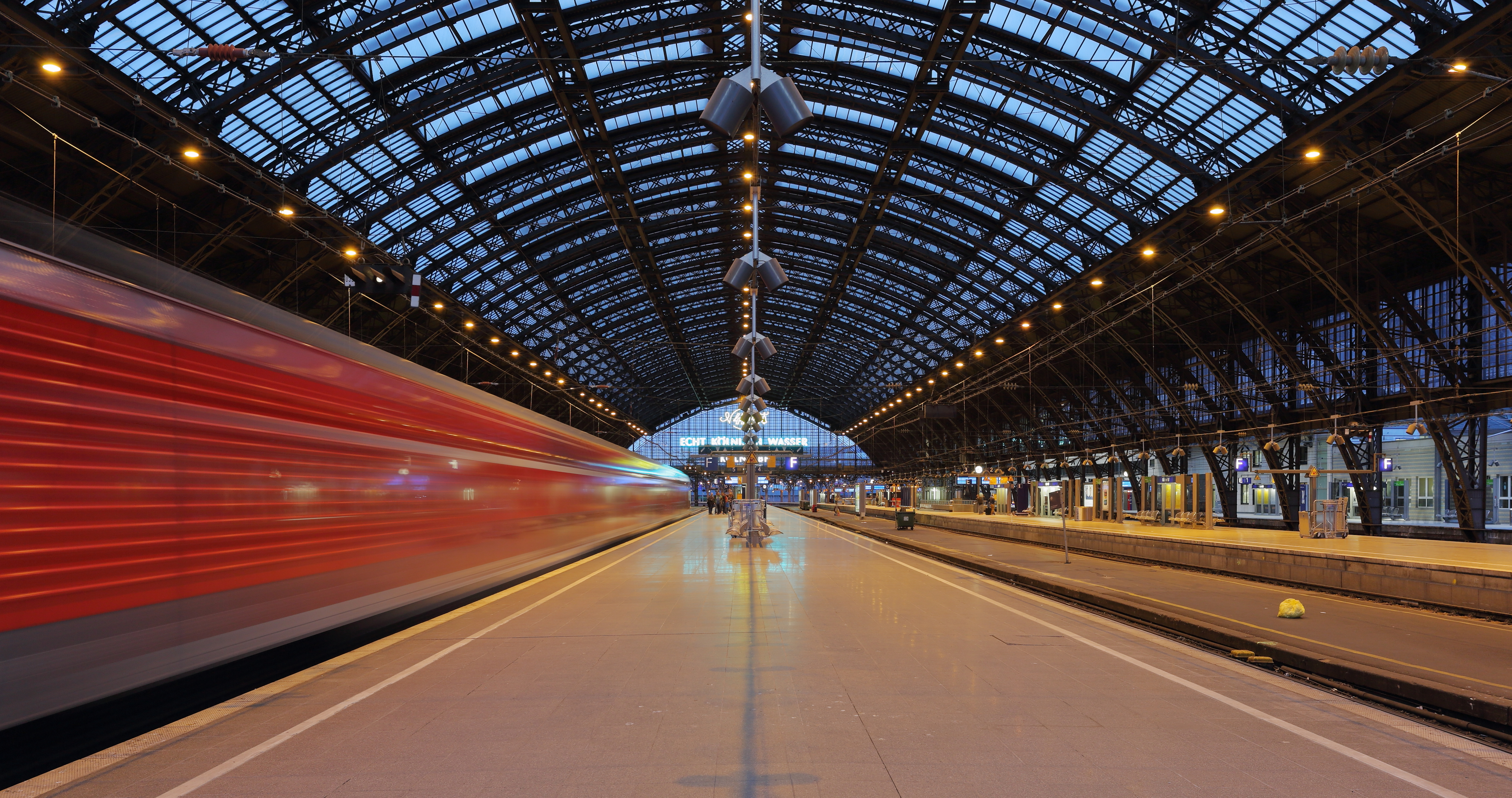 Cologne Hauptbahnhof as seen from the central platform of the main hall